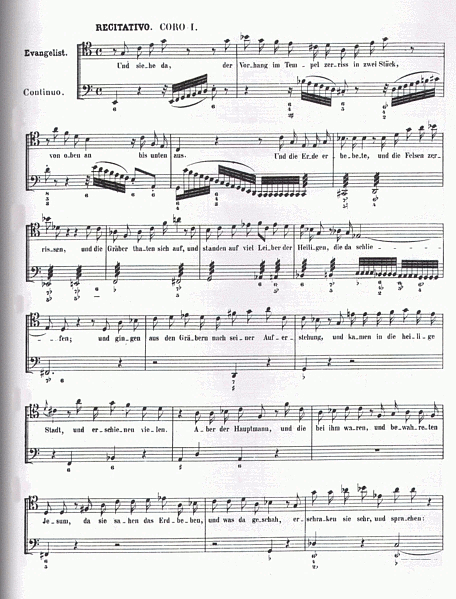 A page from the Bach-Gesellschaft edition of J.S. Bach's "St. Matthew Passion," BWV 244, as published in 1856. This page shows the beginning of the Evangelist's recitative "Und siehe da" immediately following the death of Christ